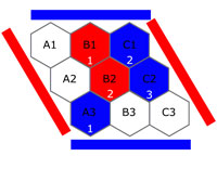 Illustration of a winning strategy for a hex game 3x3 (2)